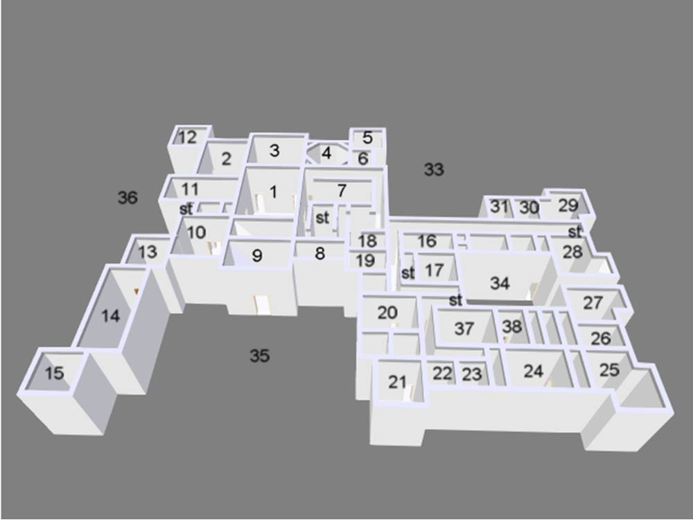 Plan drawn by User:Giano